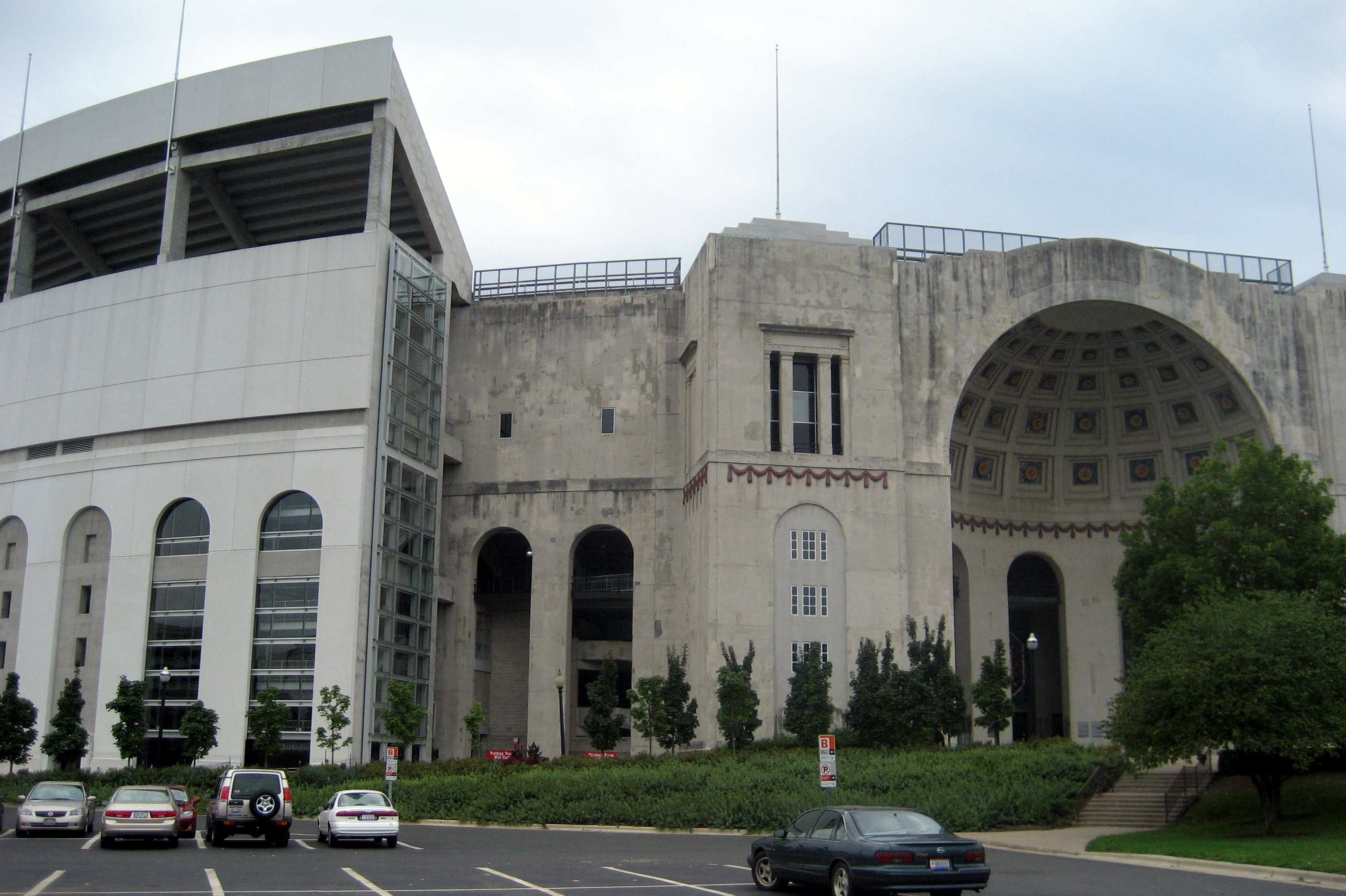 Ohio Stadium of Ohio State University as seen from the outside, showing the Rotunda